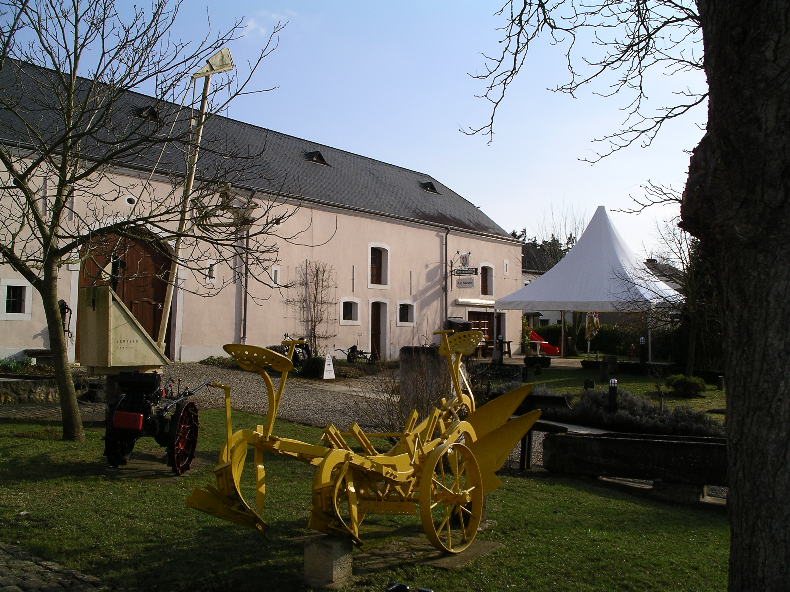 Museum rural, Roeser-Peppange, Luxembourg